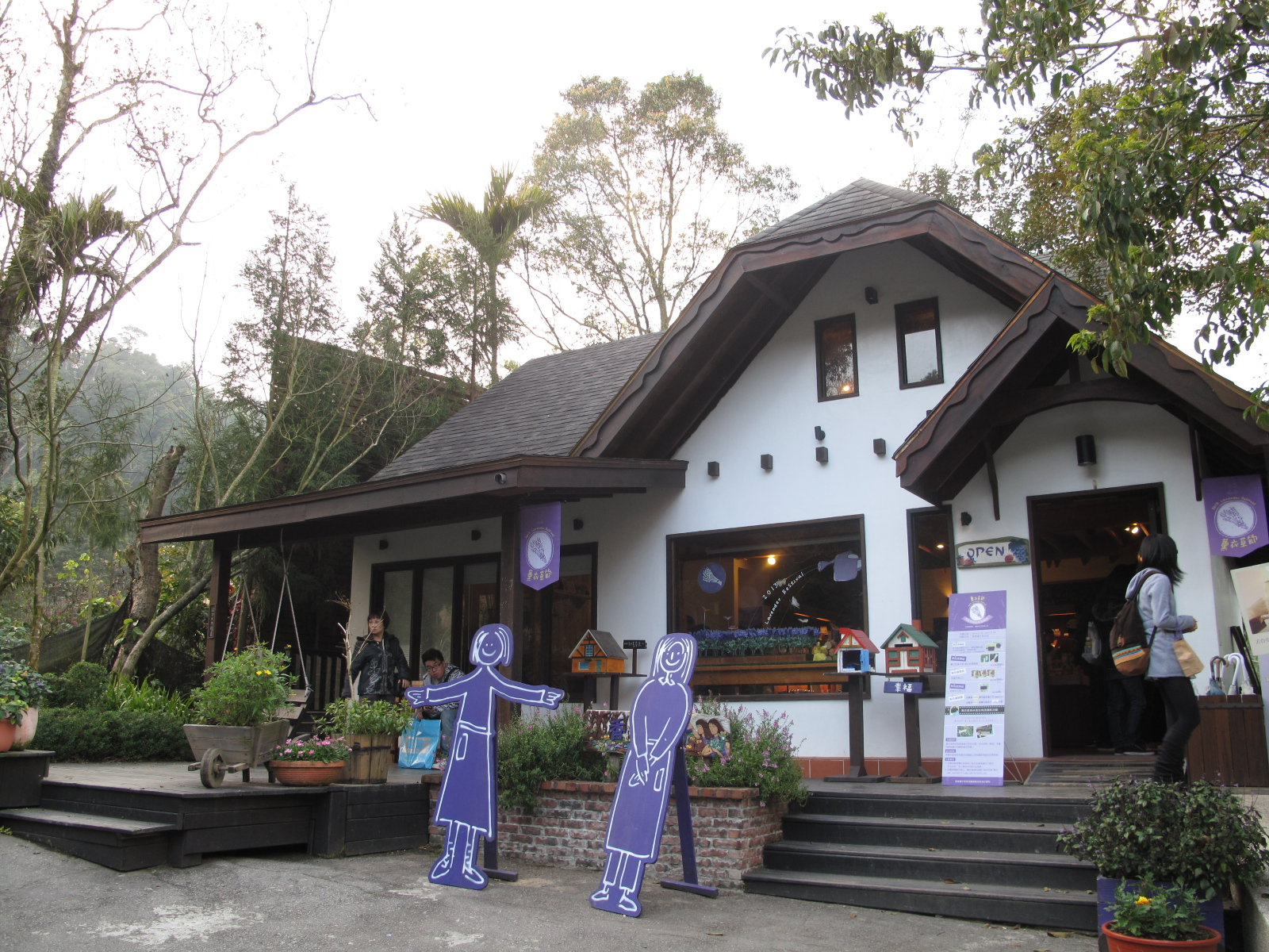 This photo is shows the Sweet Grass House of Lavender Cottage at Xinshe in Taiwan.